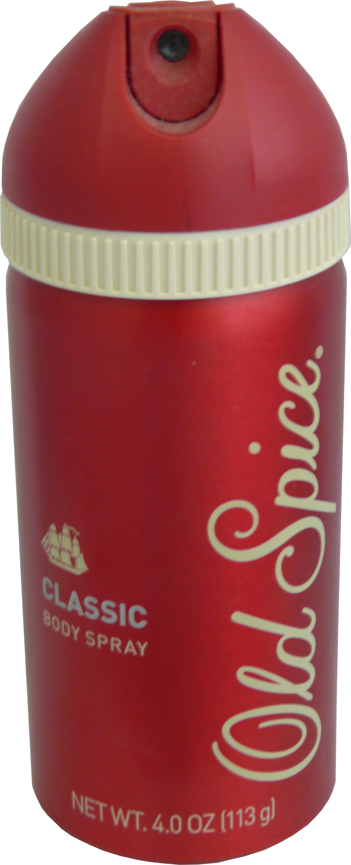 Old Spice deodorant (front view)